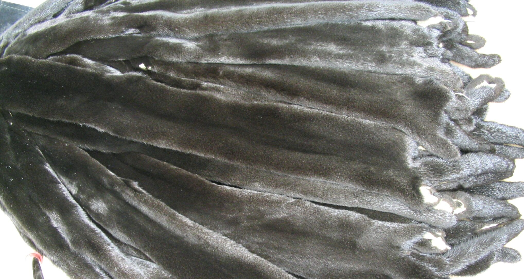 Mink fur-skins, females (Blackglama, North America) in Firma Pelzmodelle Kuhn, Düsseldorf